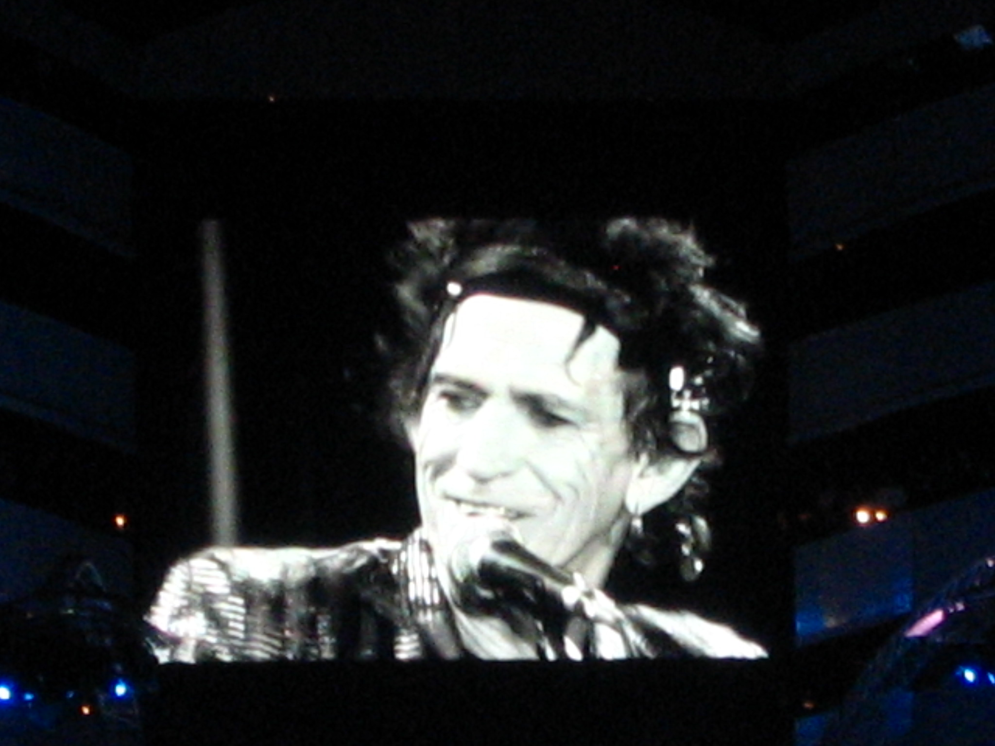 Keith Richards at Duke University